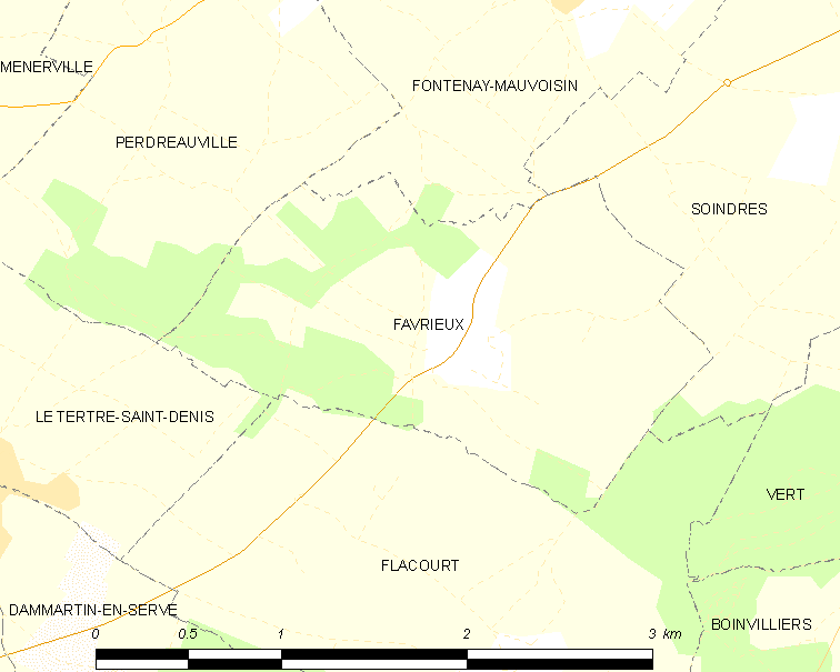 Map of French municipality Favrieux